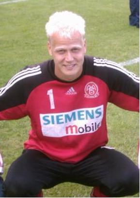 Jimmy Nielsen, photographed during his time at AaB